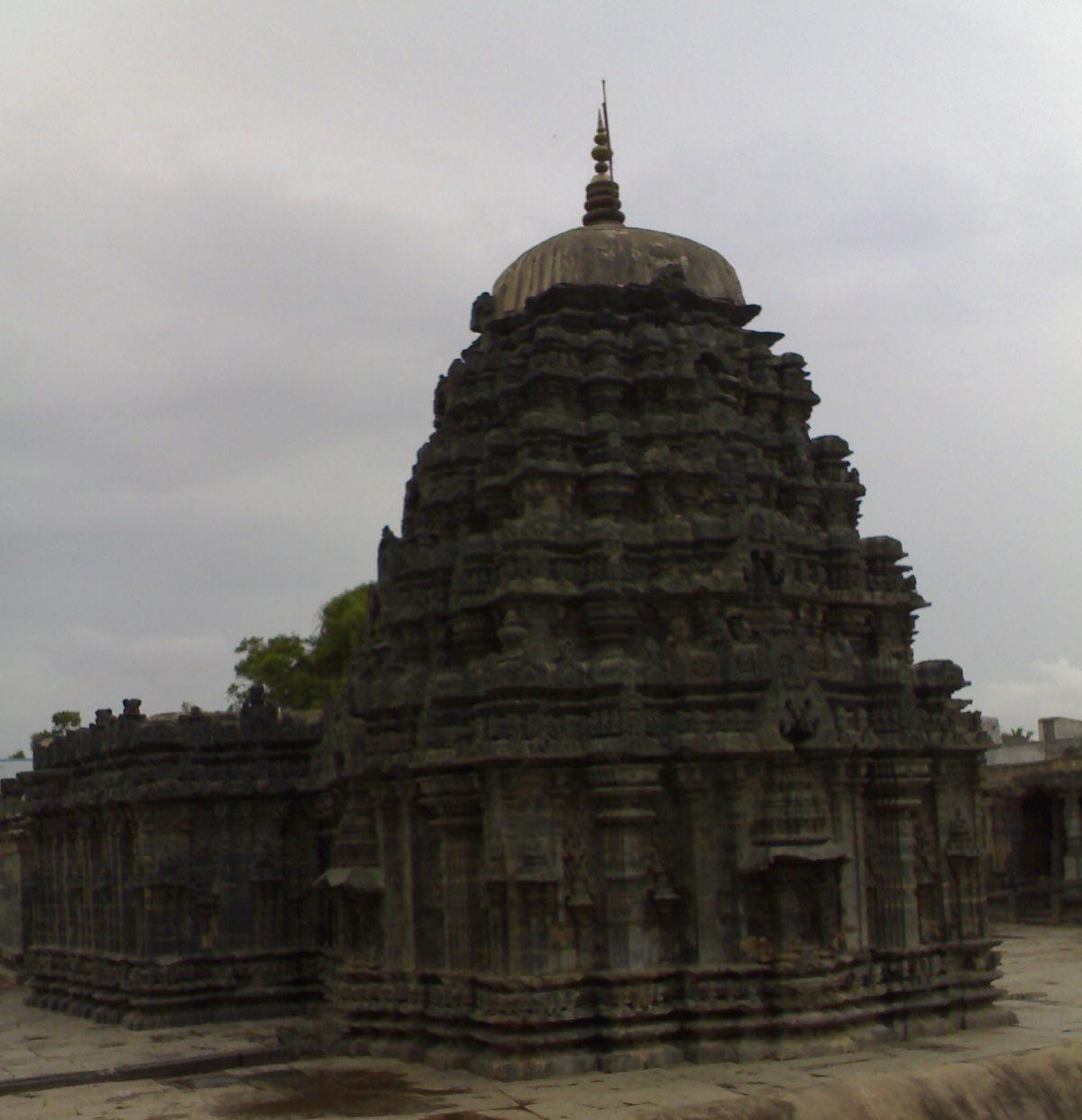 Annigeri Amriteshwara Temple Source and Author : Manjunath Doddamani, Gajendragad / Hubli, Karnataka(North), India